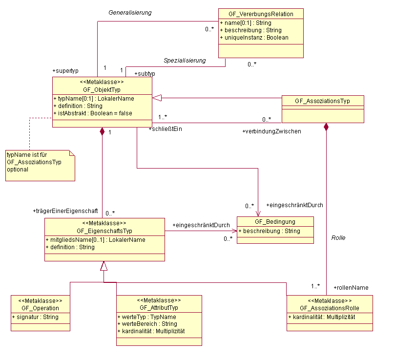 Overview over the General Feature Model of ISO 19109